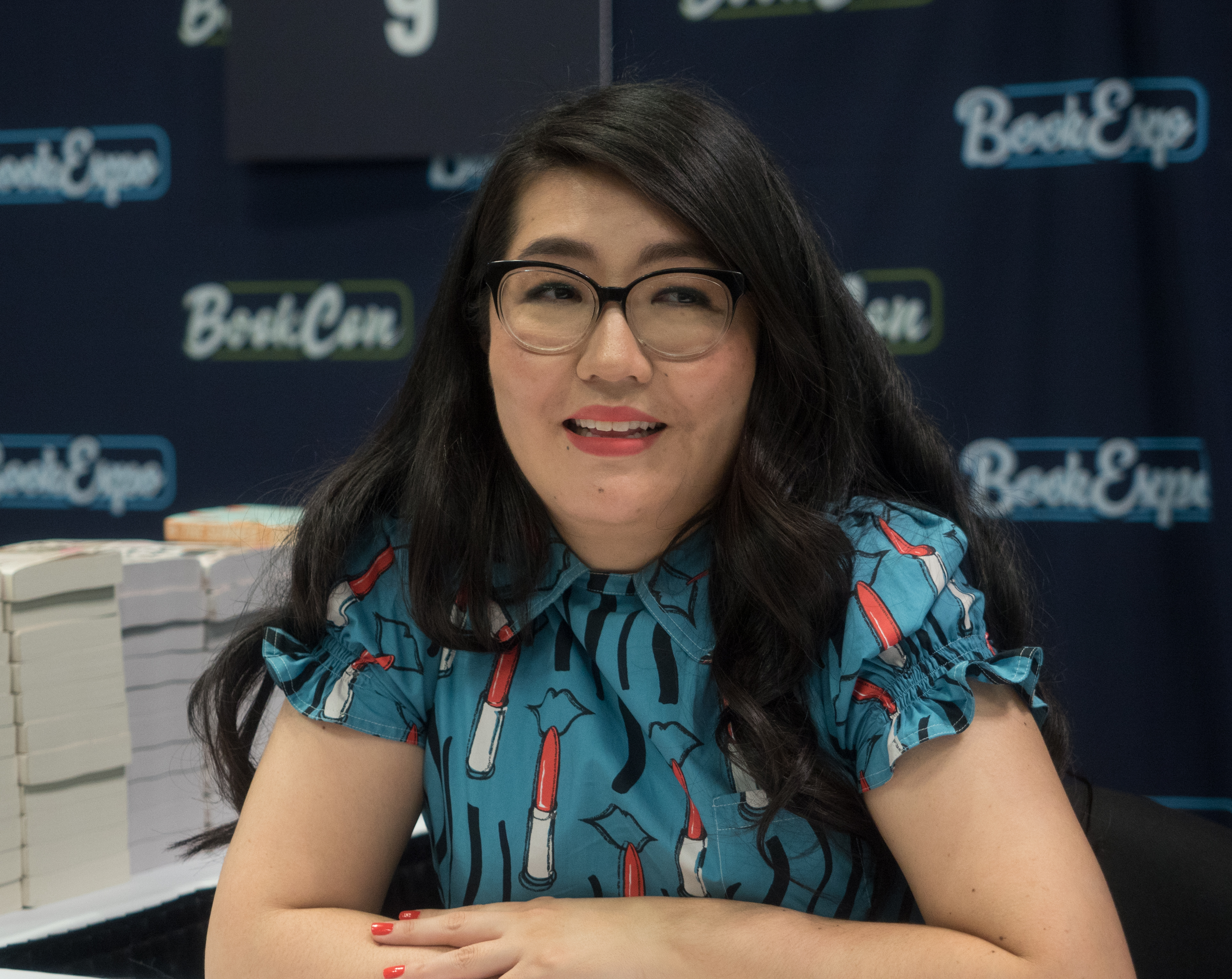 Jenny Han at BookCon